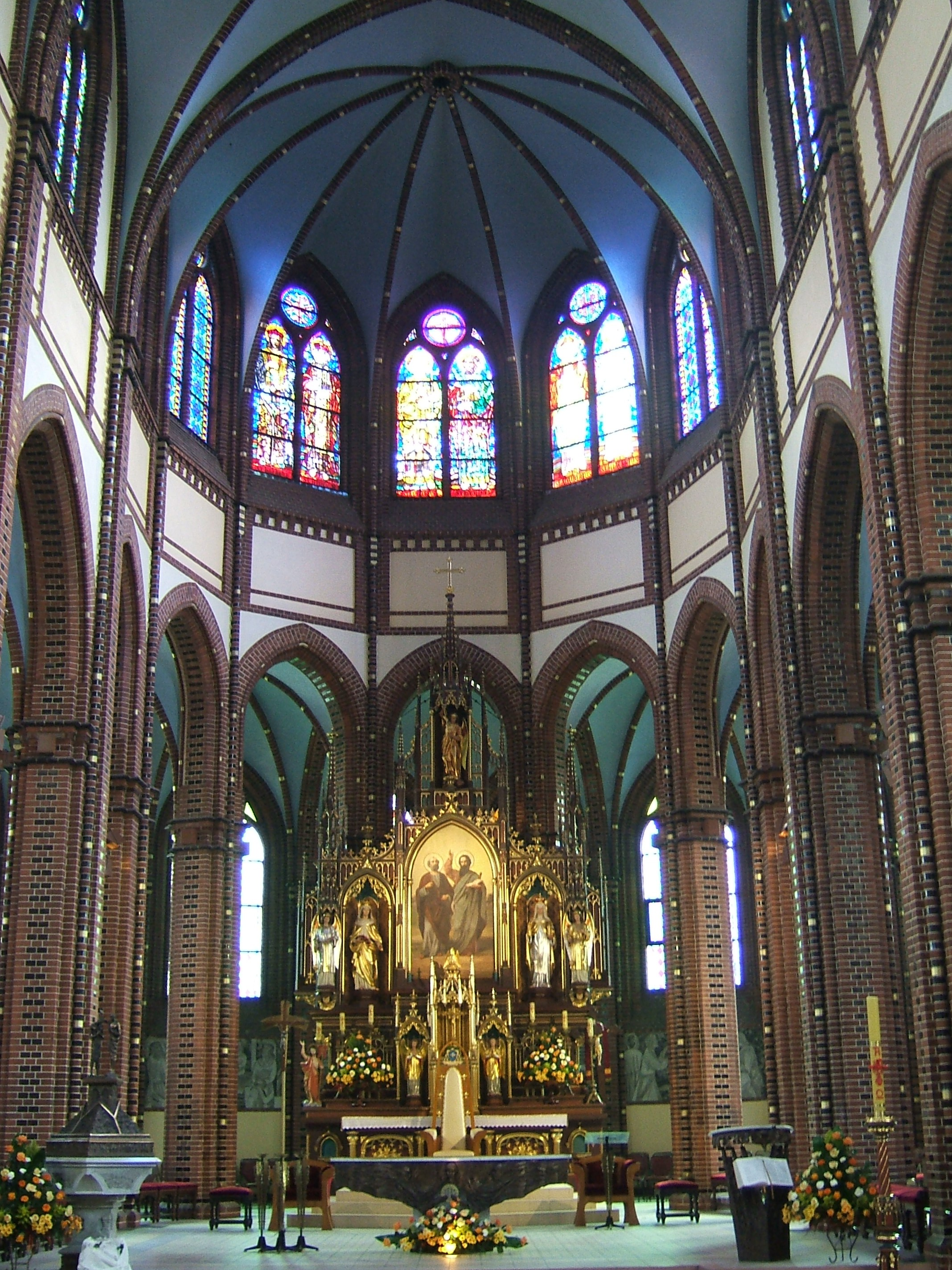 Quire of Gliwice's cathedral St. Peter and Paul.